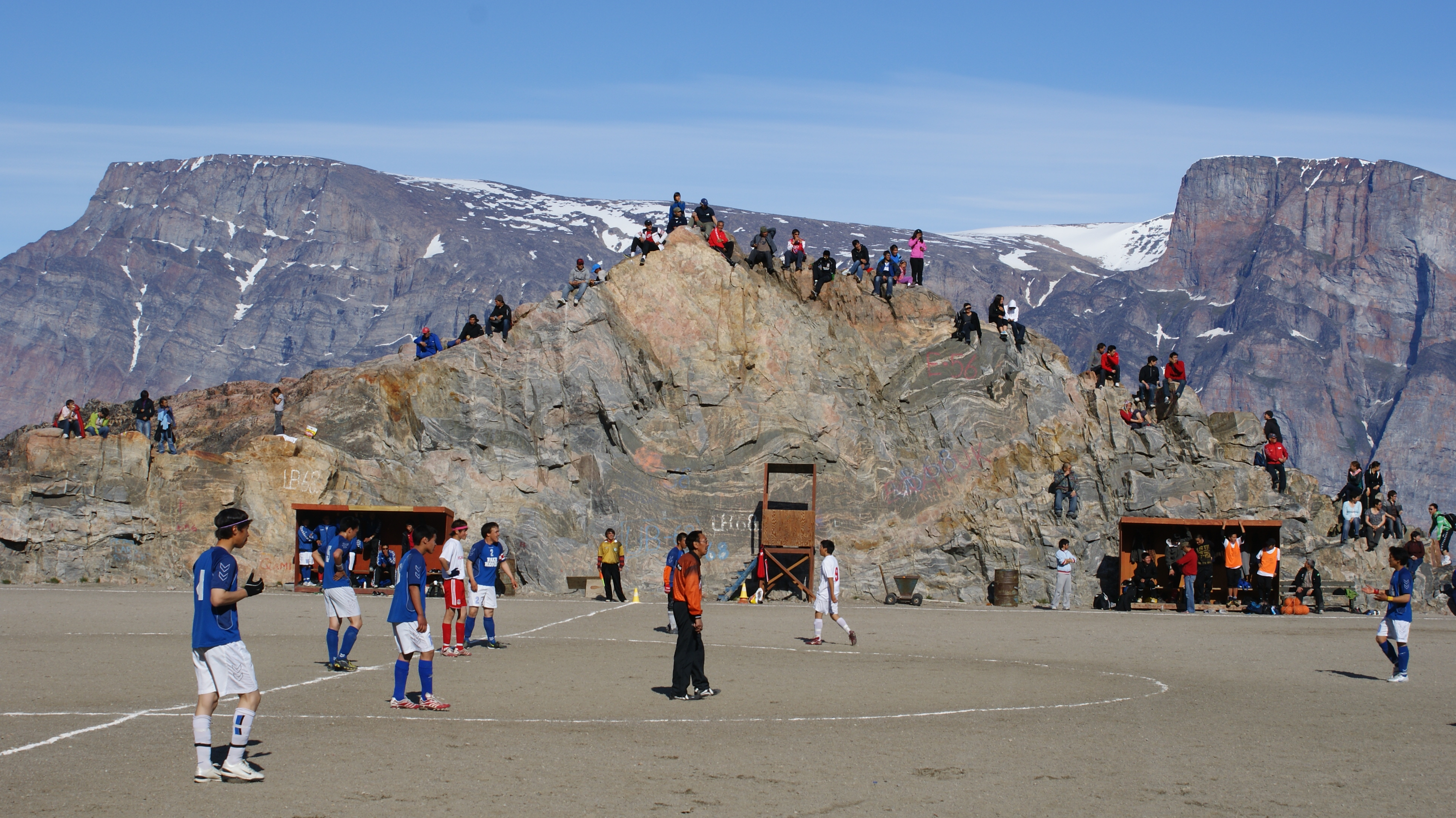 Uummannaq, Greenland. The (football) game is on. Salliaruseq Island in the background.